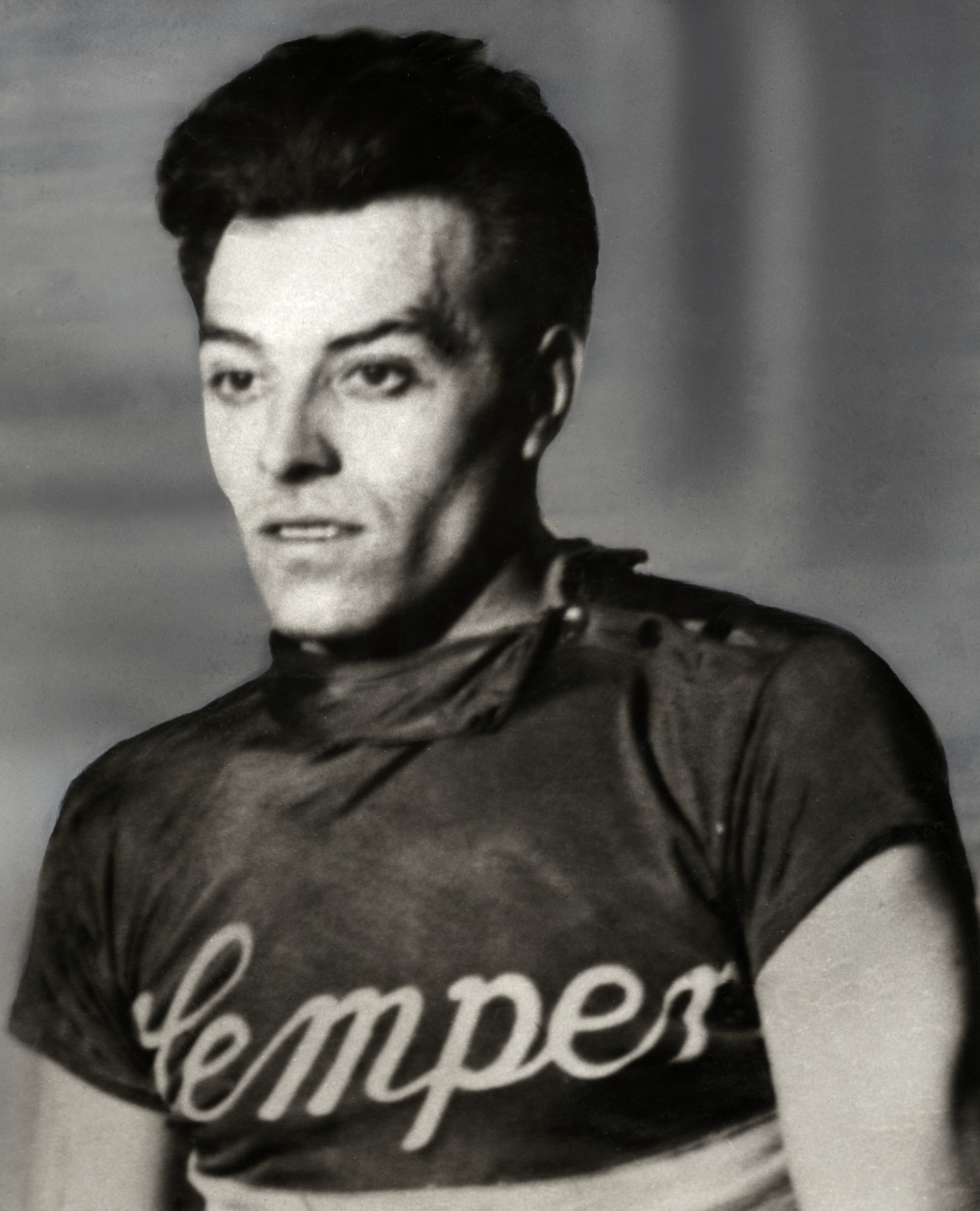 Dutch cyclist Dingeman Pieter (Piet) van Kempen [1898 - 1985], picture of 1936, unknown location.